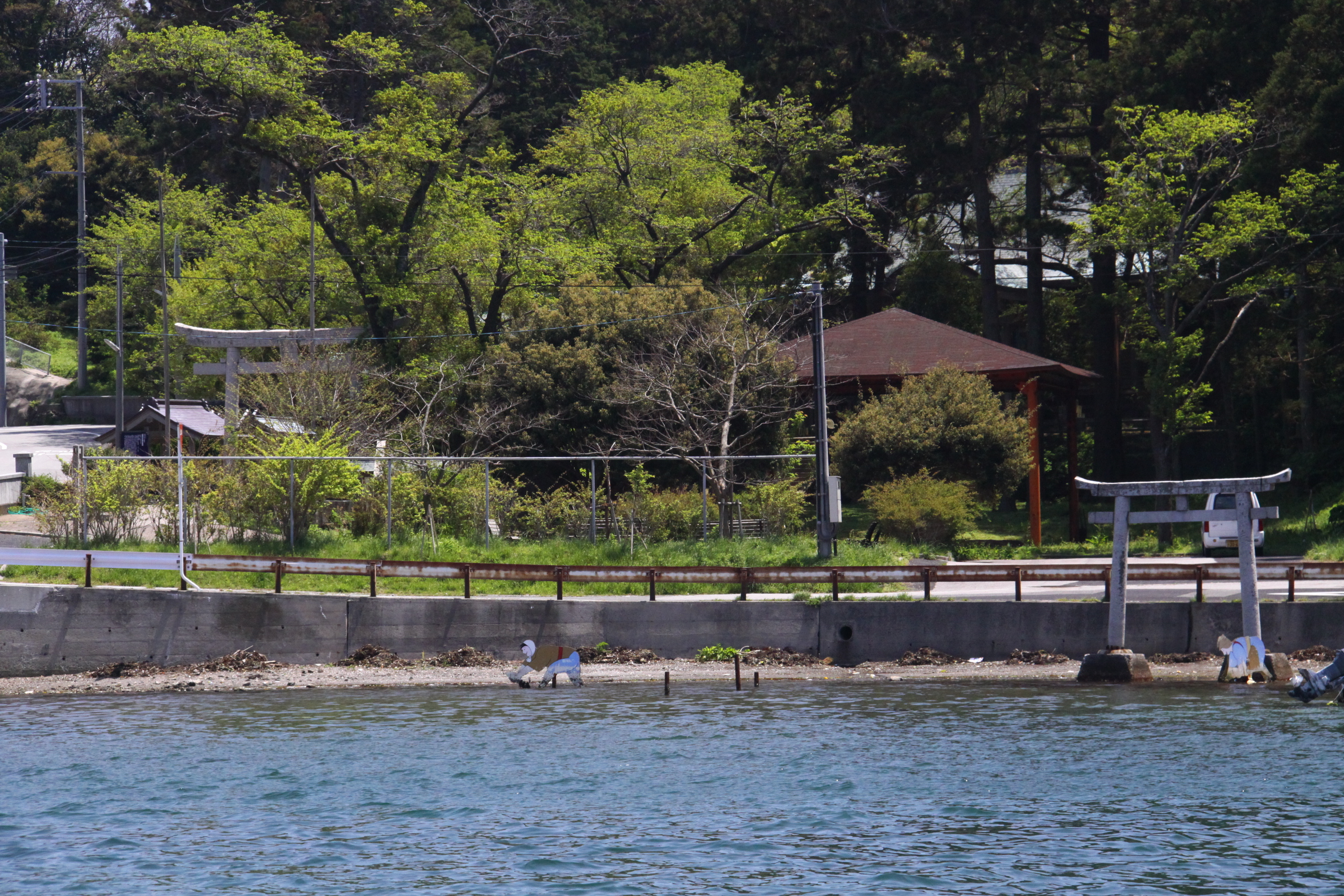 Precincts of Yurahime jinja